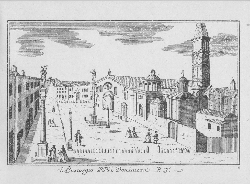 Marc'Antonio Dal Re (1697-1766), "Sant'Eustorgio church, owned by Dominicans friars, in Milan". This engraving is # 43 from a set of 88 Vedute di Milano ("Views of Milan") published by Del Re around 1745.